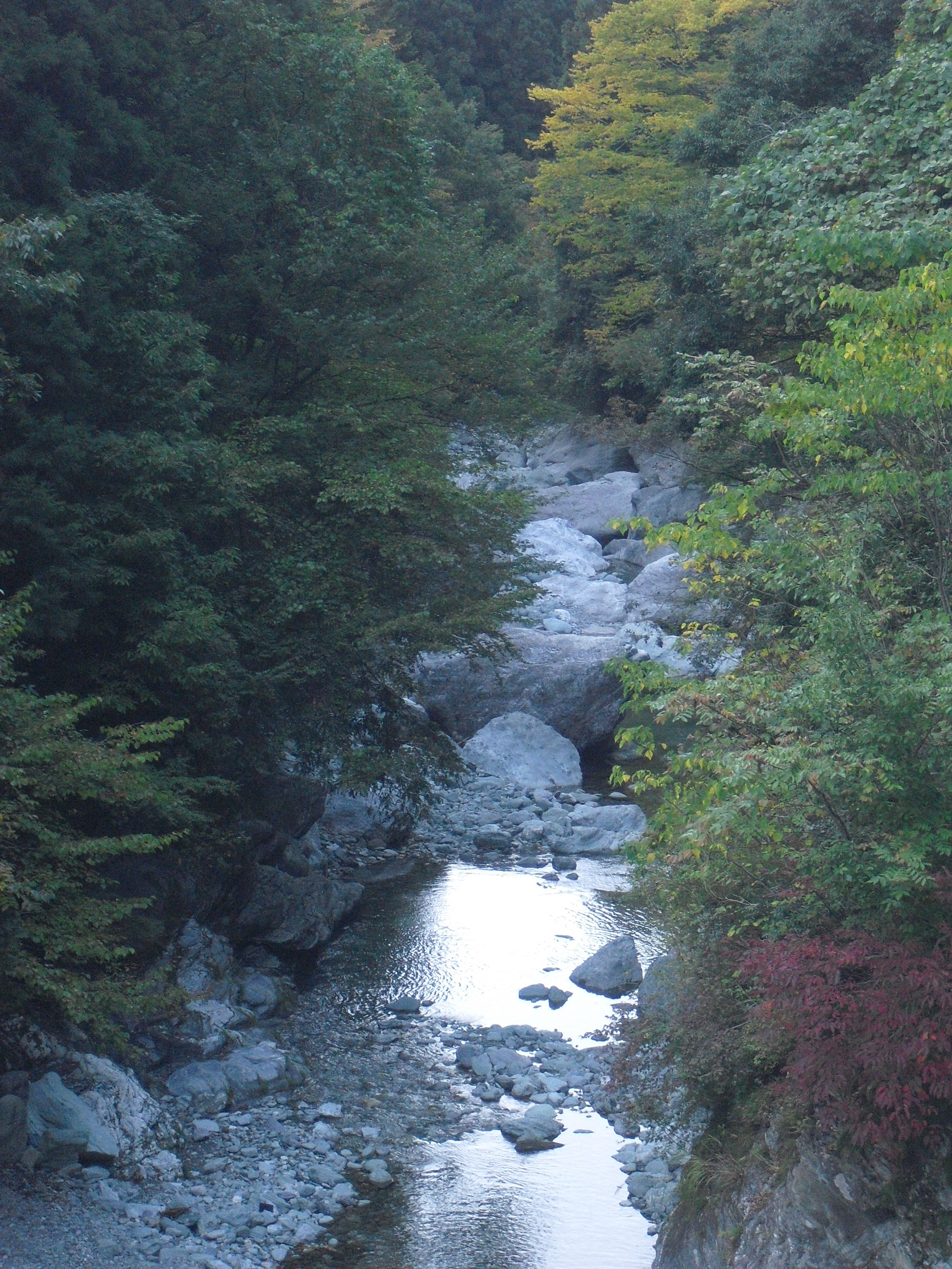 Ichiukyo valley